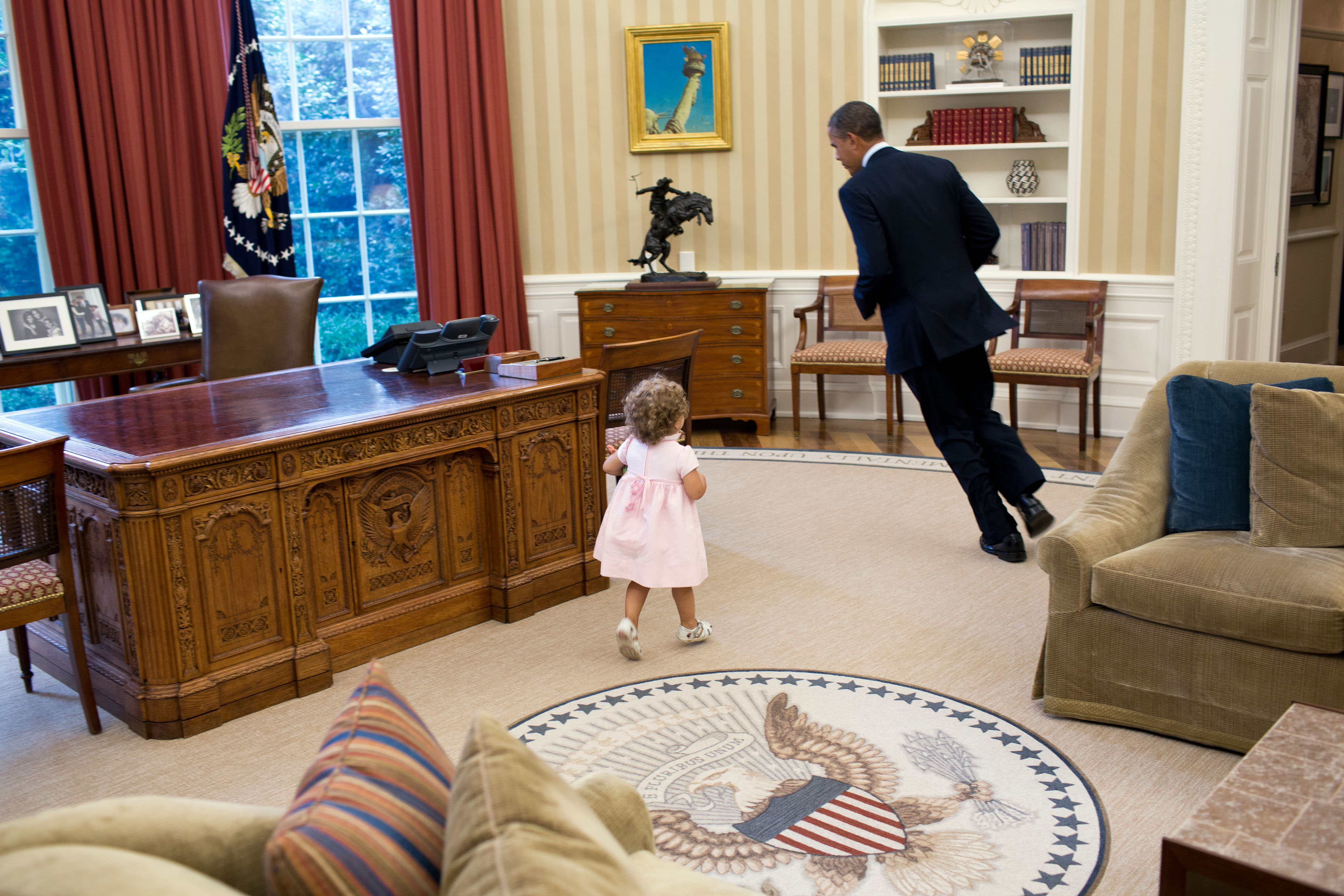 United States President Barack Obama runs around his desk in the Oval Office with Sarah Froman, daughter of Nancy Goodman and Mike Froman, Deputy National Security Advisor for International Economics, on 9 July 2012 (P070912PS-0271)